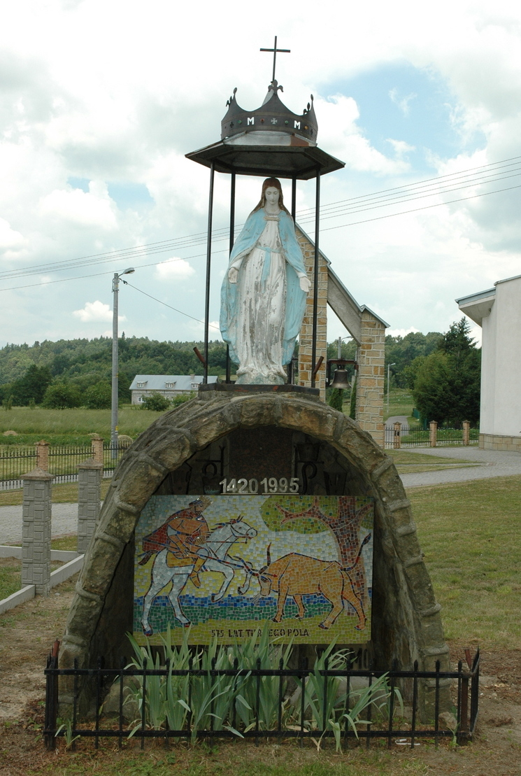 Monument of the 575 anniversary of the founding of Turze Pole